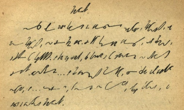 1-st paragraph of the story of the Boleslav Prus "The waistcoat" written in shorthand of Barbara Balczynska